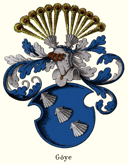 Coat of arms of the Gøye/Gjøe family